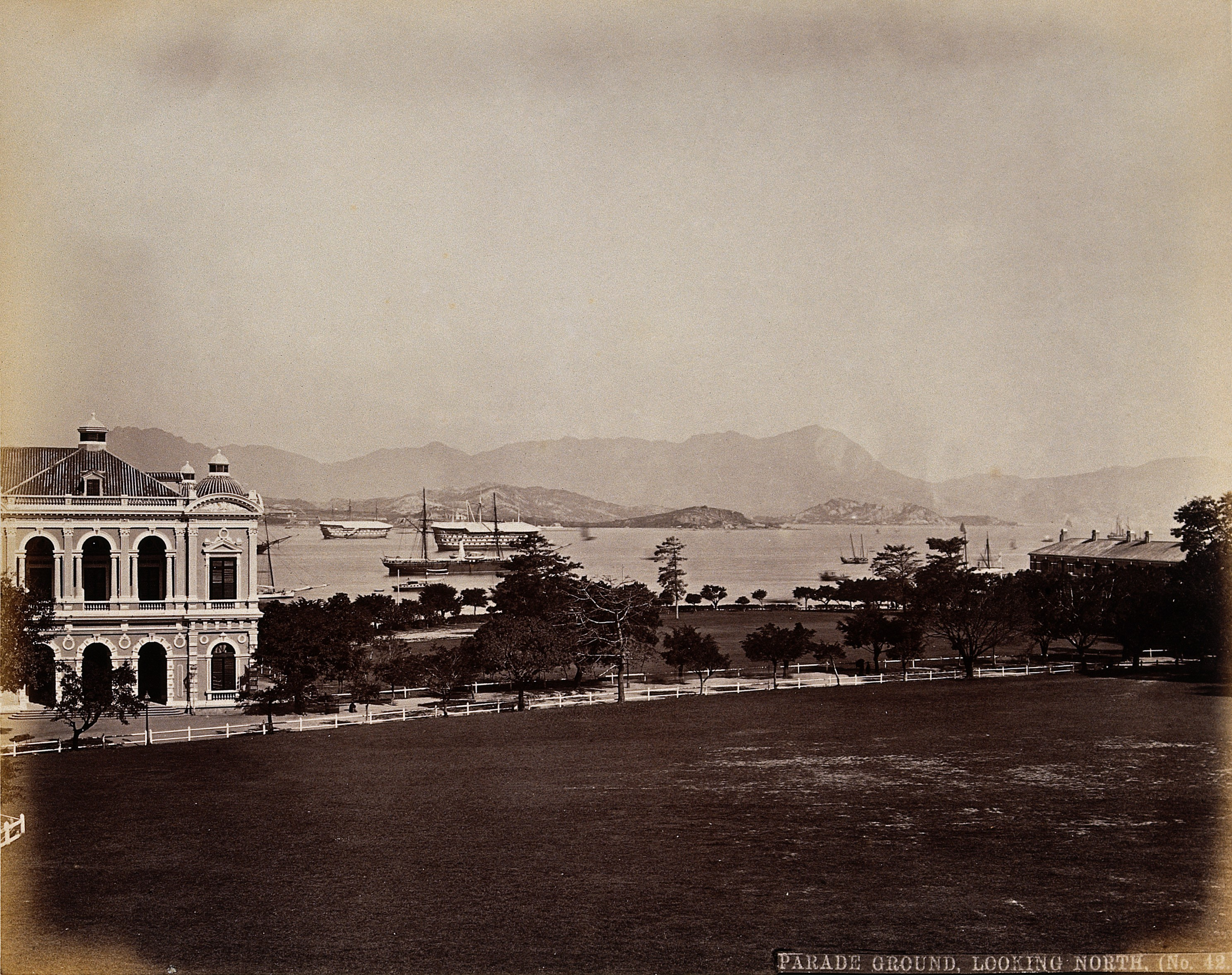 China Iconographic Collections Keywords: William Pryor. Floyd